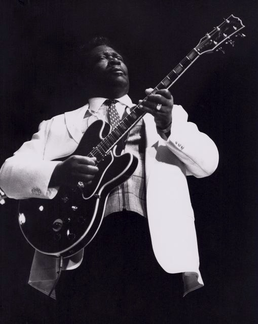 B.B. King performing in New York in the late 1980s.